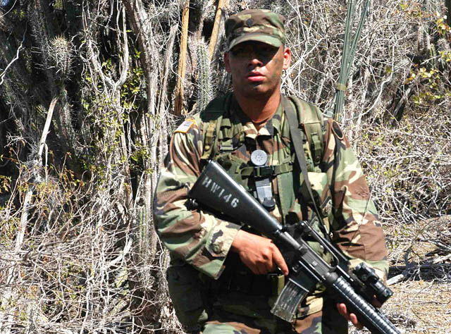 Spc. Minor Flores conducts a dismounted security patrol on the U.S. Naval Base in Guantanamo Bay, Cuba, where captured enemy combatants are detained. Flores is assigned to the 29th Infantry Division’s 181st Infantry Regiment, deployed in support of Joint Task Force Guantanamo and the Global War on Terrorism.